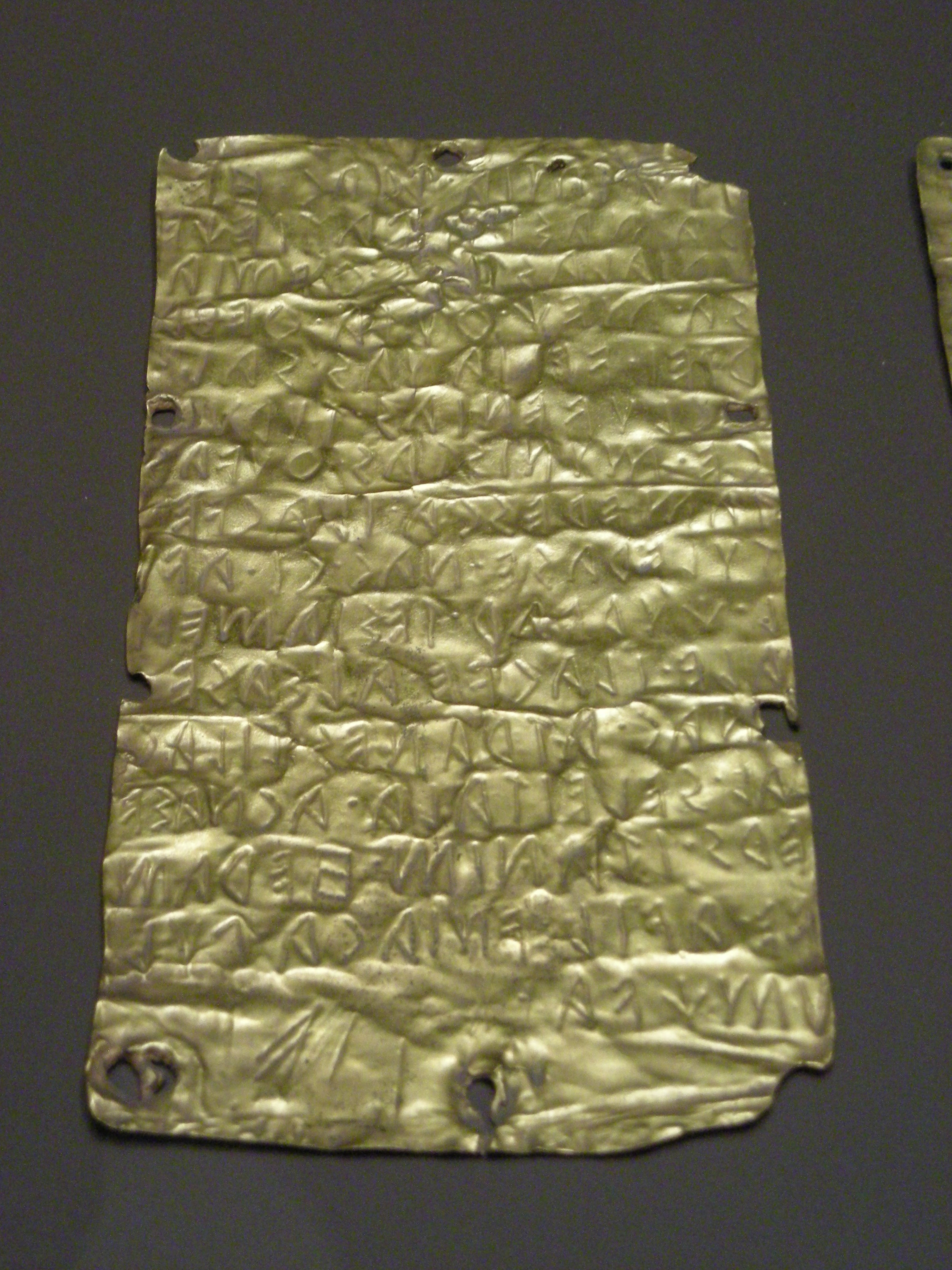 "Pyrgi tablets". Laminated sheets of gold with a treatise both in Etruscan and Phoenician languages. From Etruscan Museum in Rome (Museo di Villa Giulia). Photos taken in Caixa Forum (Madrid).